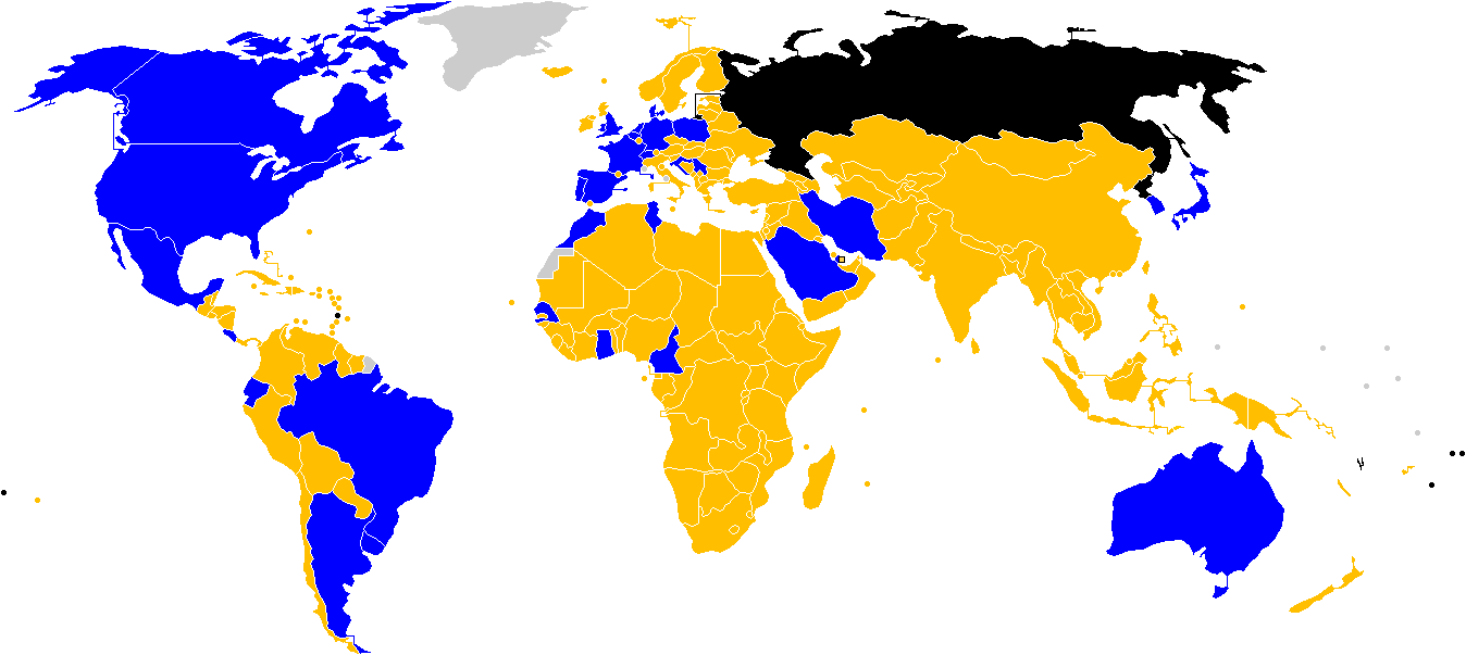 2022 FIFA World Cup qualification map: Qualified to the World Cup Can qualify to the World Cup Failed to qualify with games still to play Failed to qualify with no games left to play Suspended Not a FIFA member